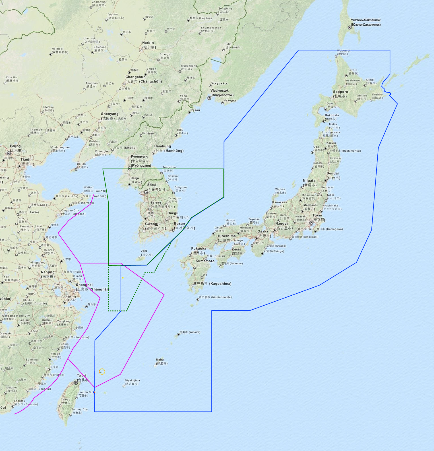 Blank map of the CADIZ (PR China; also showing the ADIZ "East China Sea") KADIZ (South Korea; with extension announced) JADIZ (Japan)